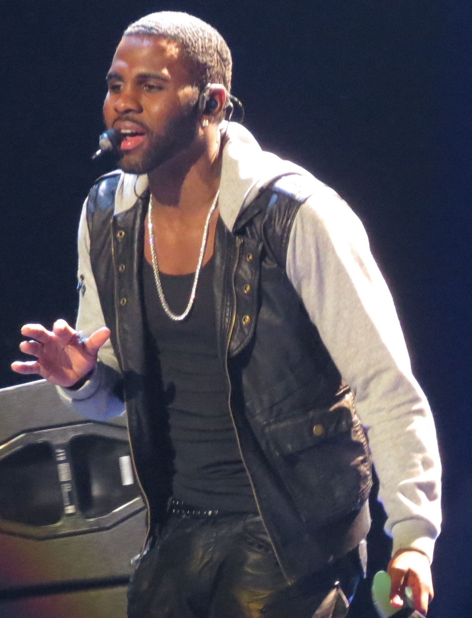 Jason Derulo in 2013